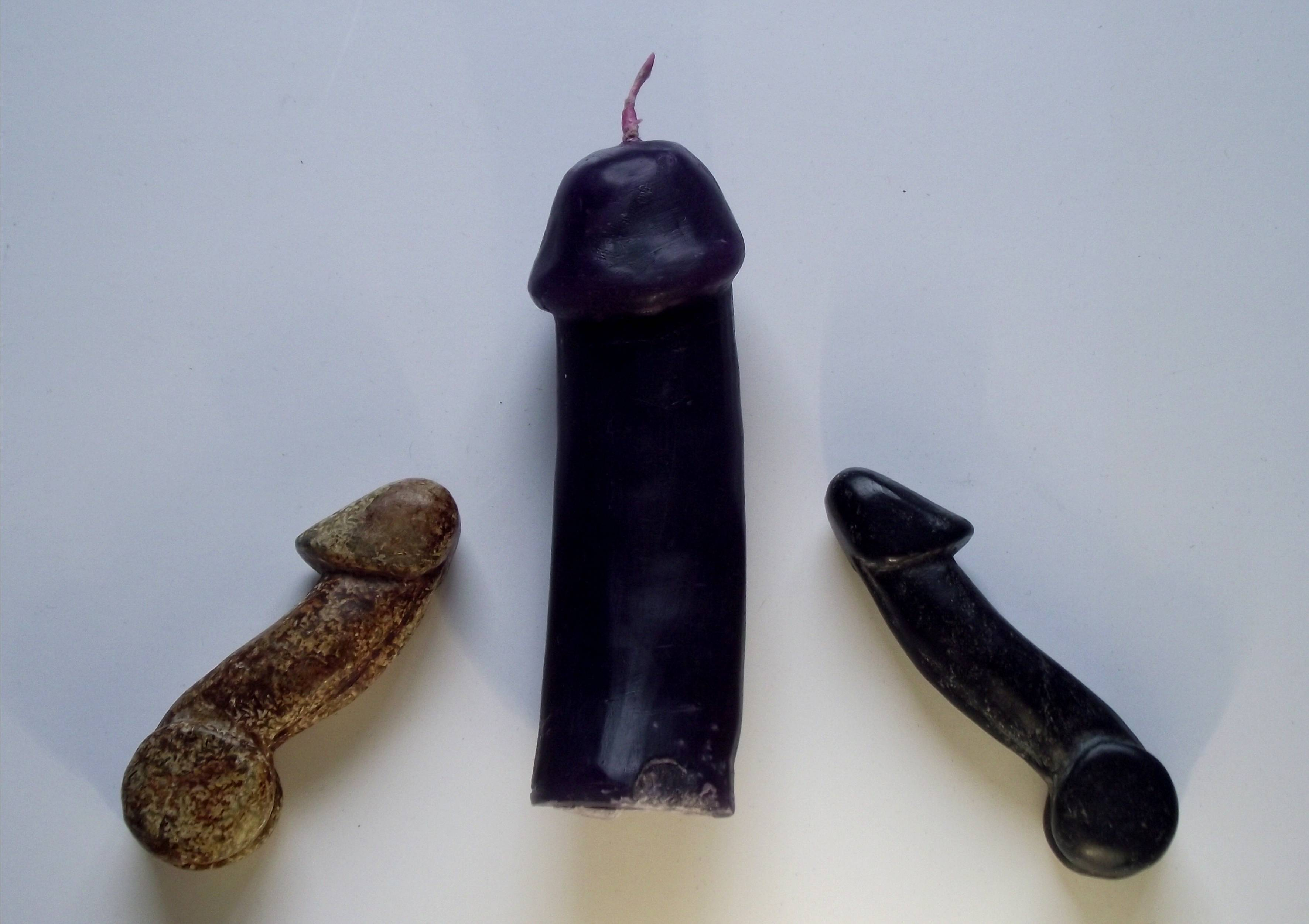 From Mal Corvus Witchcraft & Folklore artefact private collection owned by Malcolm Lidbury (aka Pink Pasty) Witchcraft Tools